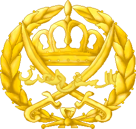 Jordan army cap insignia